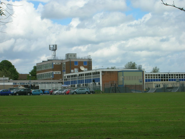 Cayton School